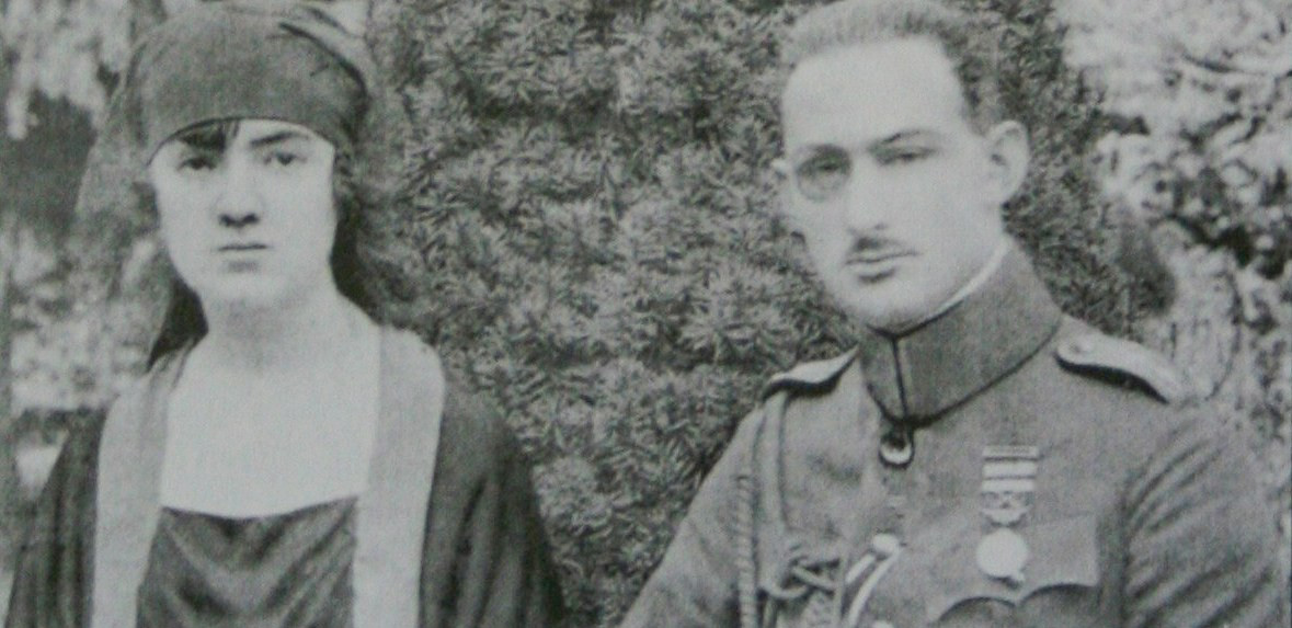 Sabiha Sultan and Omer Faruk Efendi